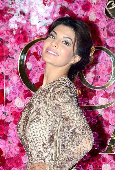 at ‘Lux Golden Rose Awards 2016’